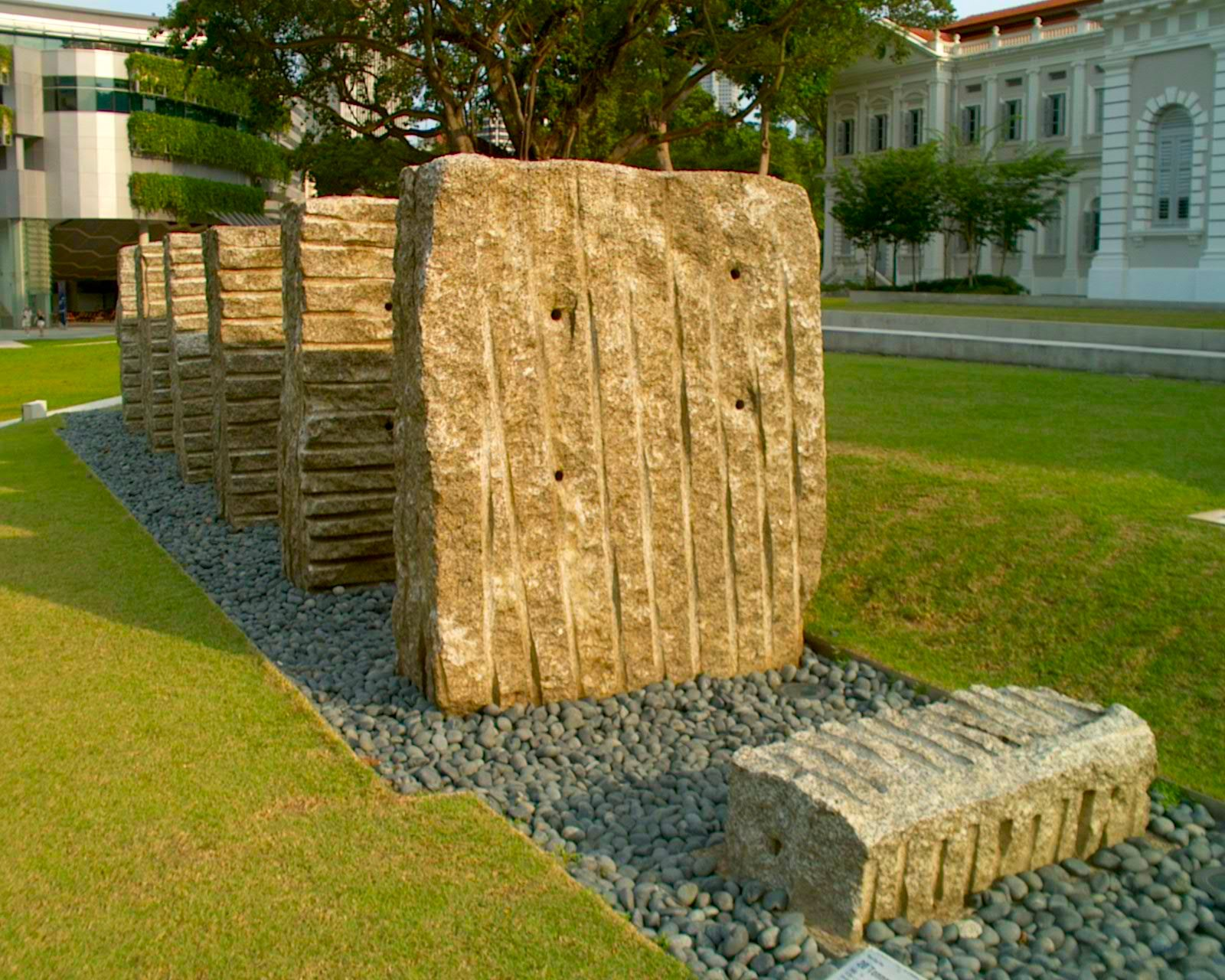 Singaporean sculptor Han Sai Por's sculpture 20 Tonnes, located in the grounds of the National Museum of Singapore. First exhibited in 2002 in the atrium of the MICA Building (formerly the Old Hill Street Police Station), it consists of a row of six ridged monolithic granite blocks with a smaller block at either end, all hewn from a single rock.